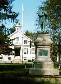 Town Square infront of the Old Town House in Kingston, Massachusetts. The statue in the foreground is a Civil War veteran memorial.